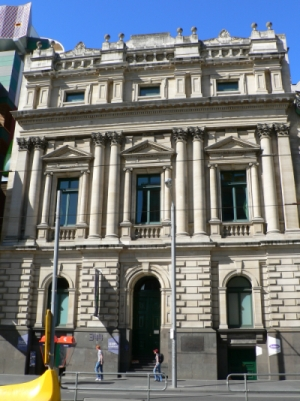 Former Hibernian Hall. Swanston Street, Melbourne